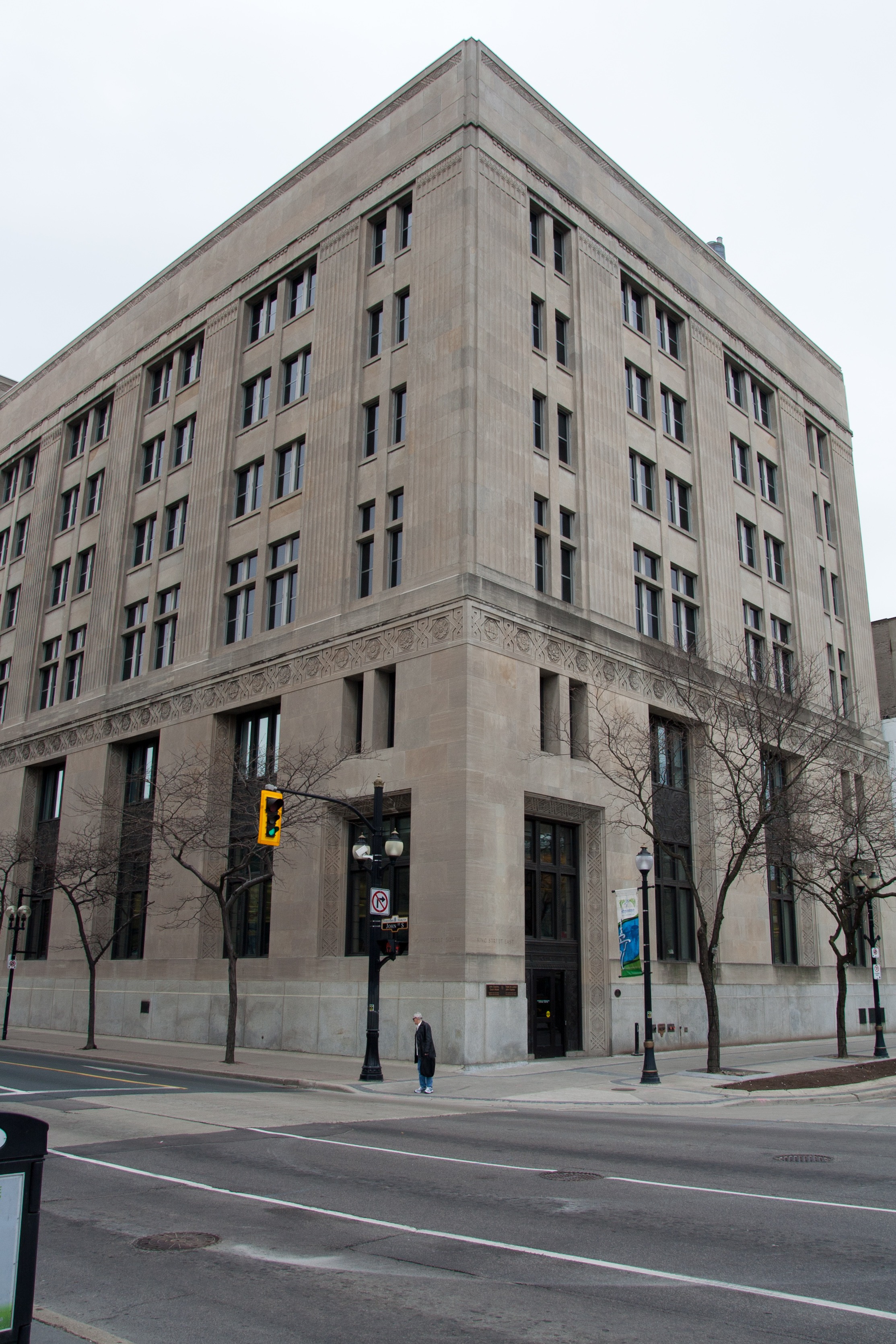 The John Sopinka Courthouse named for the first Ukranian-Canadian justice of the Supreme Court of Canada.